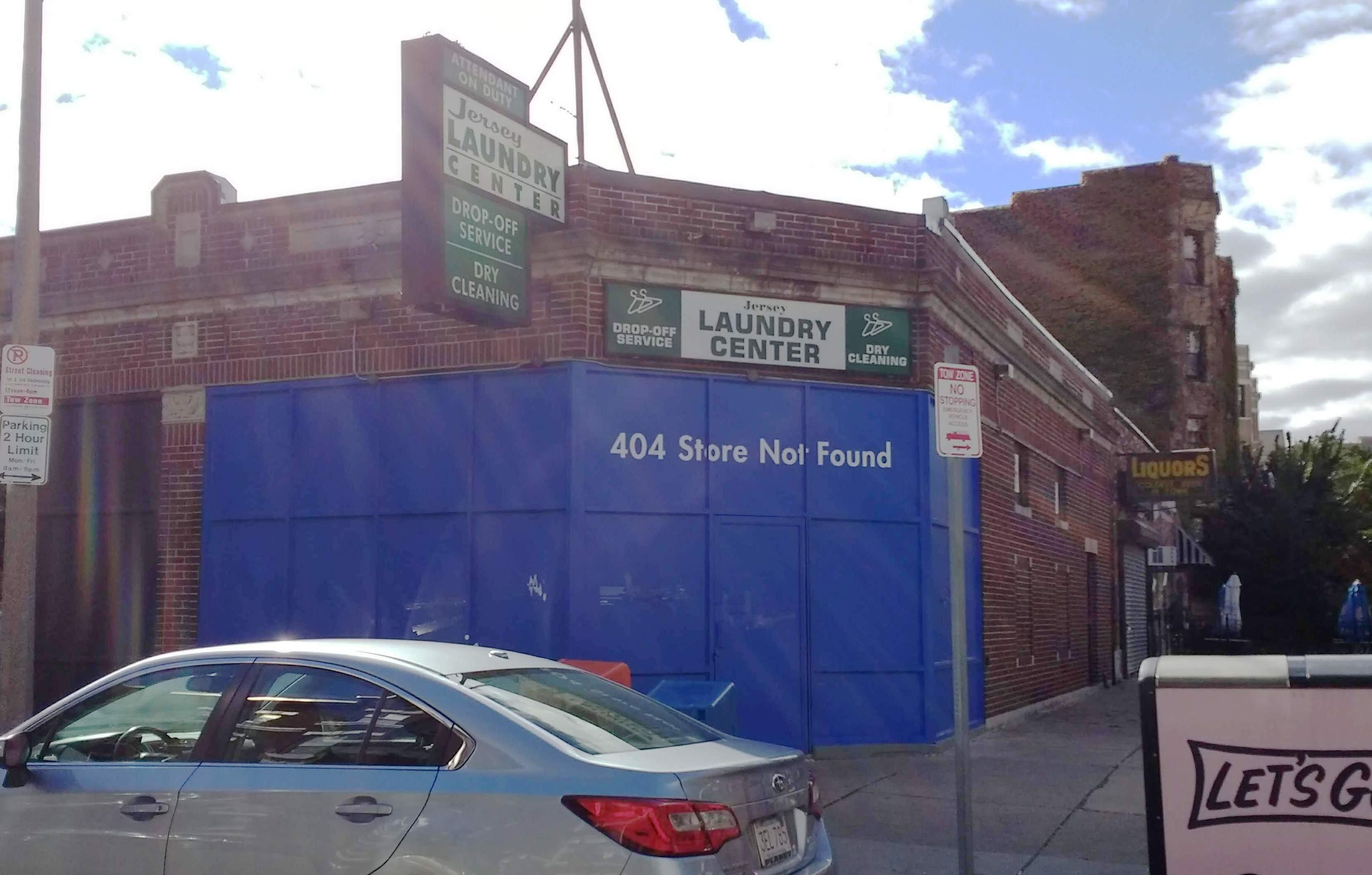 A store in the Fenway neighborhood of Boston using humor to show a business is moved or closed.